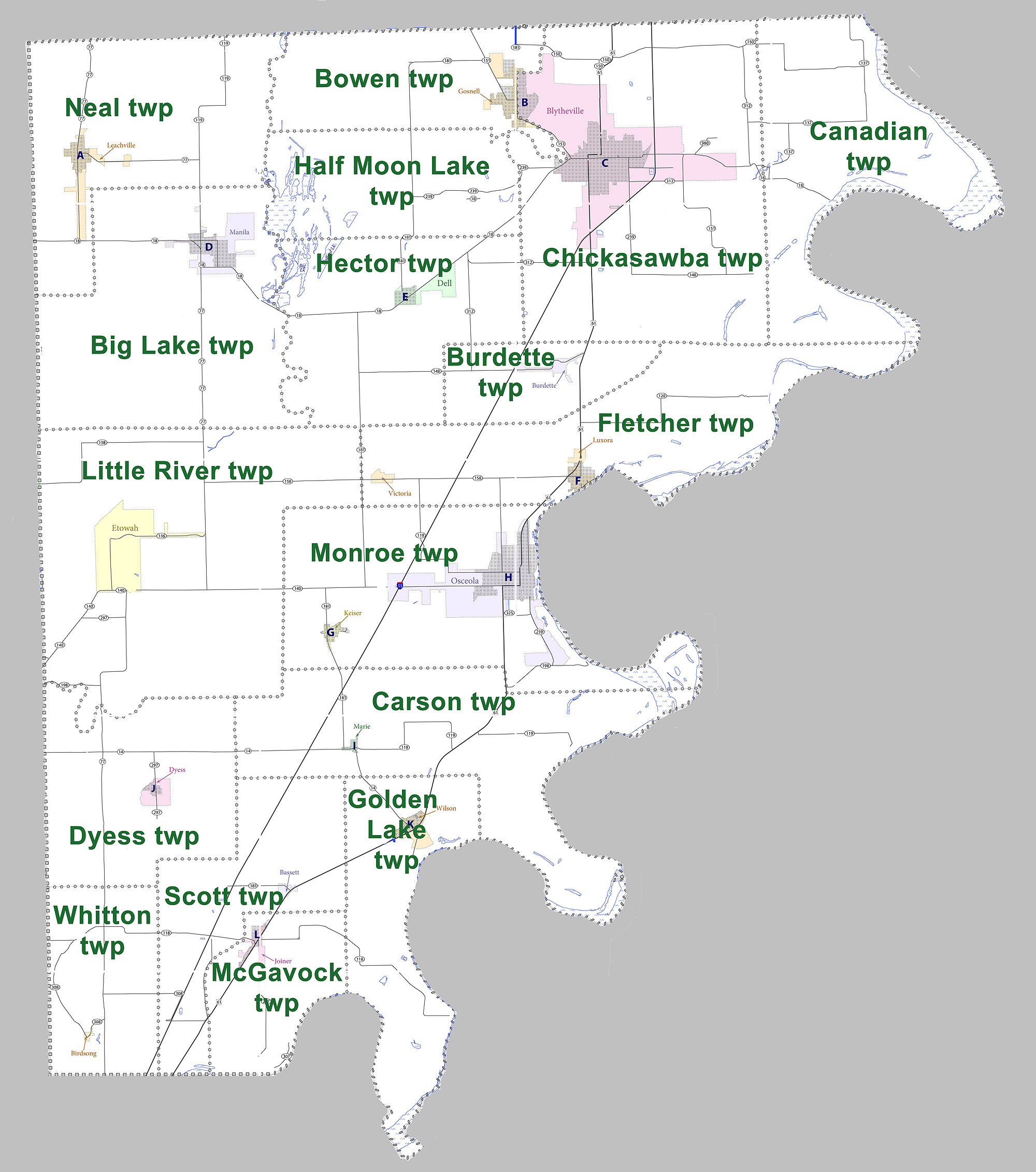 Large map showing townships in Mississippi County, Arkansas. Modified from US census map (for 2010 census) for Mississippi County, Arkansas